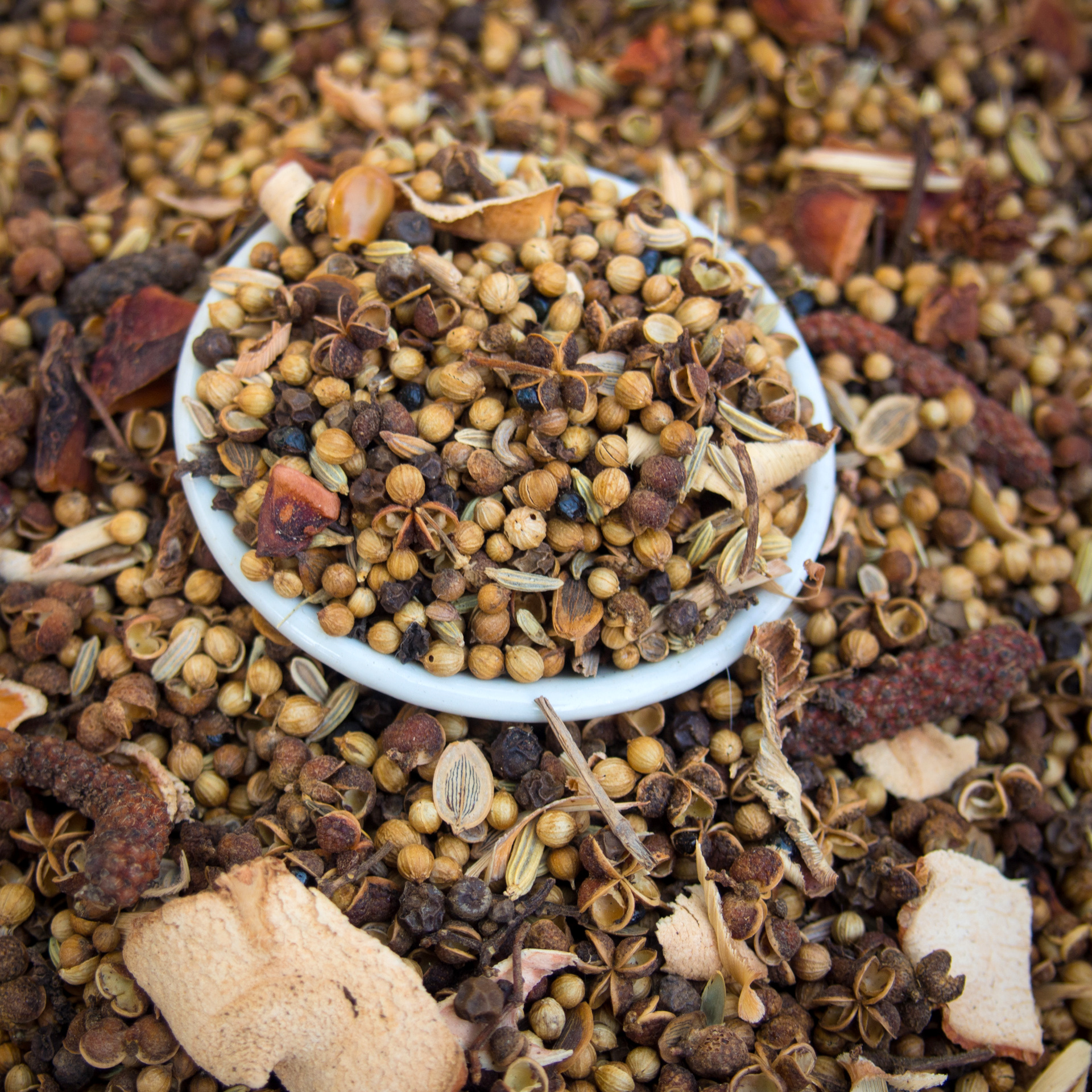 Phrik lap (Thai script: พริกลาบ) is the mix of more than a dozen dried spices used in northern Thai lap/larb. At a market in Chiang Khong, Chiang Rai province.